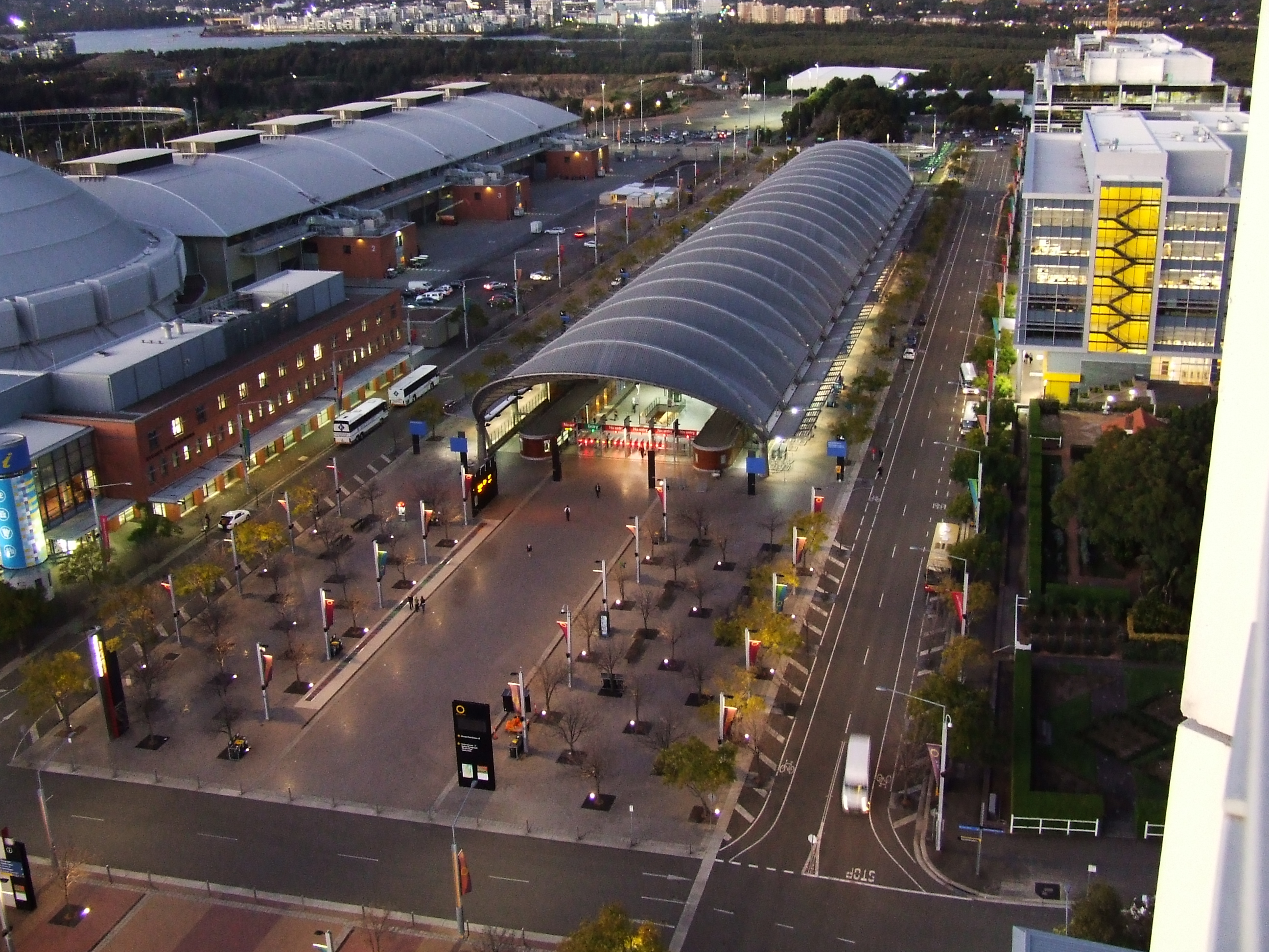 The train station at Sydney Olympic Park, Sydney Showground to the left and the Commonwealth Bank buildings to the right